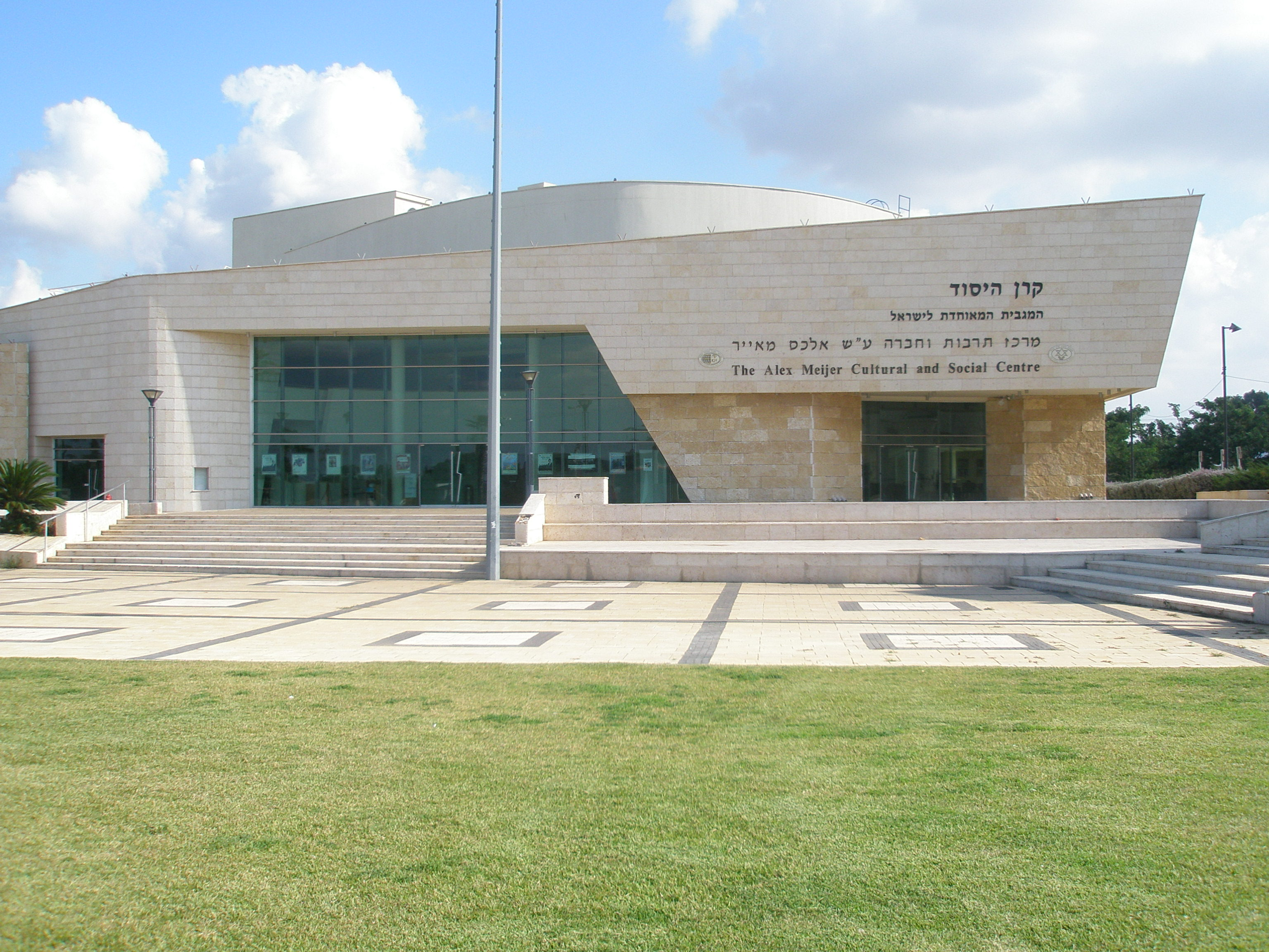 The Alex Meijer cultural and social centre, Or Akiva